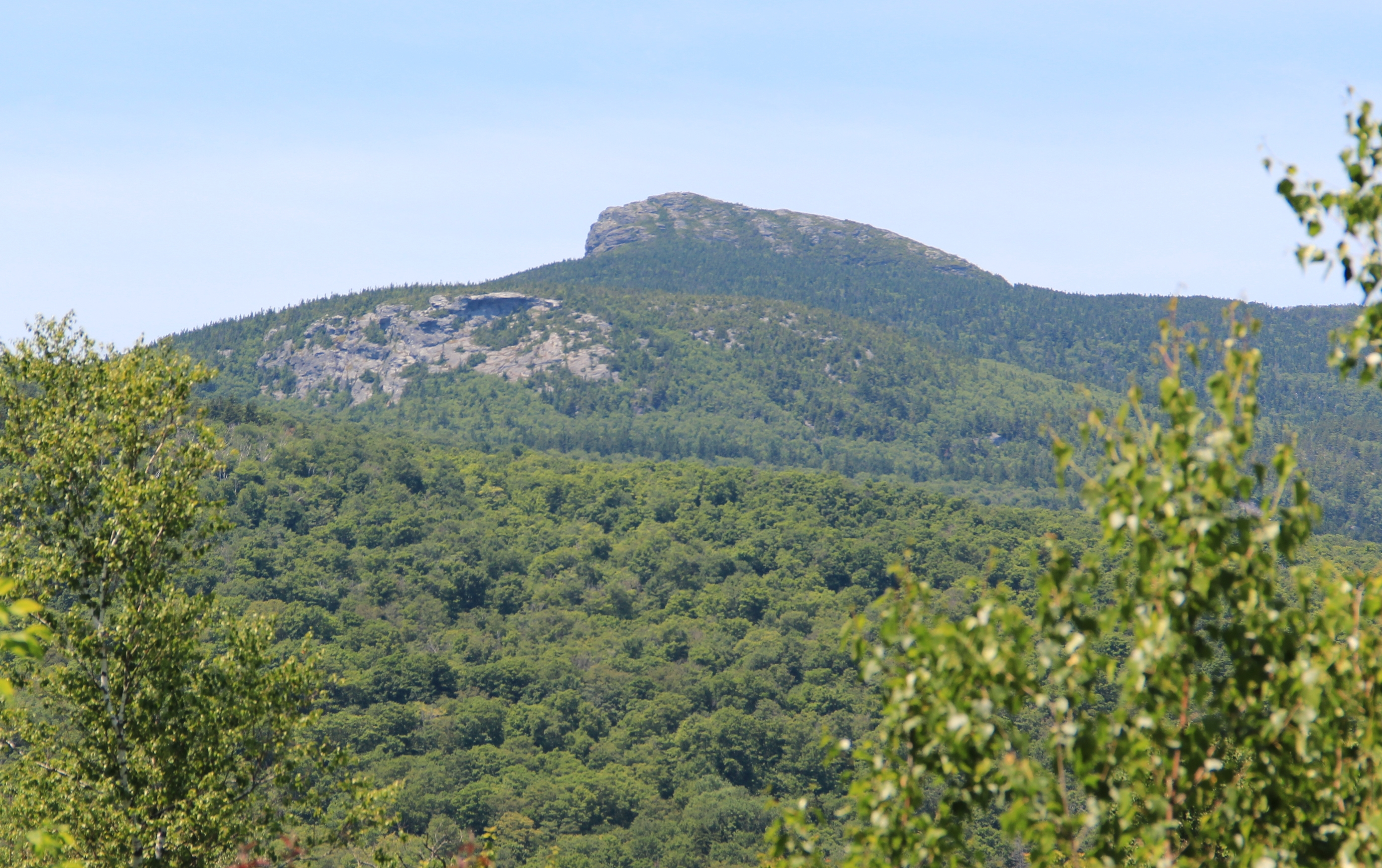 Camel's Hump, 2012.